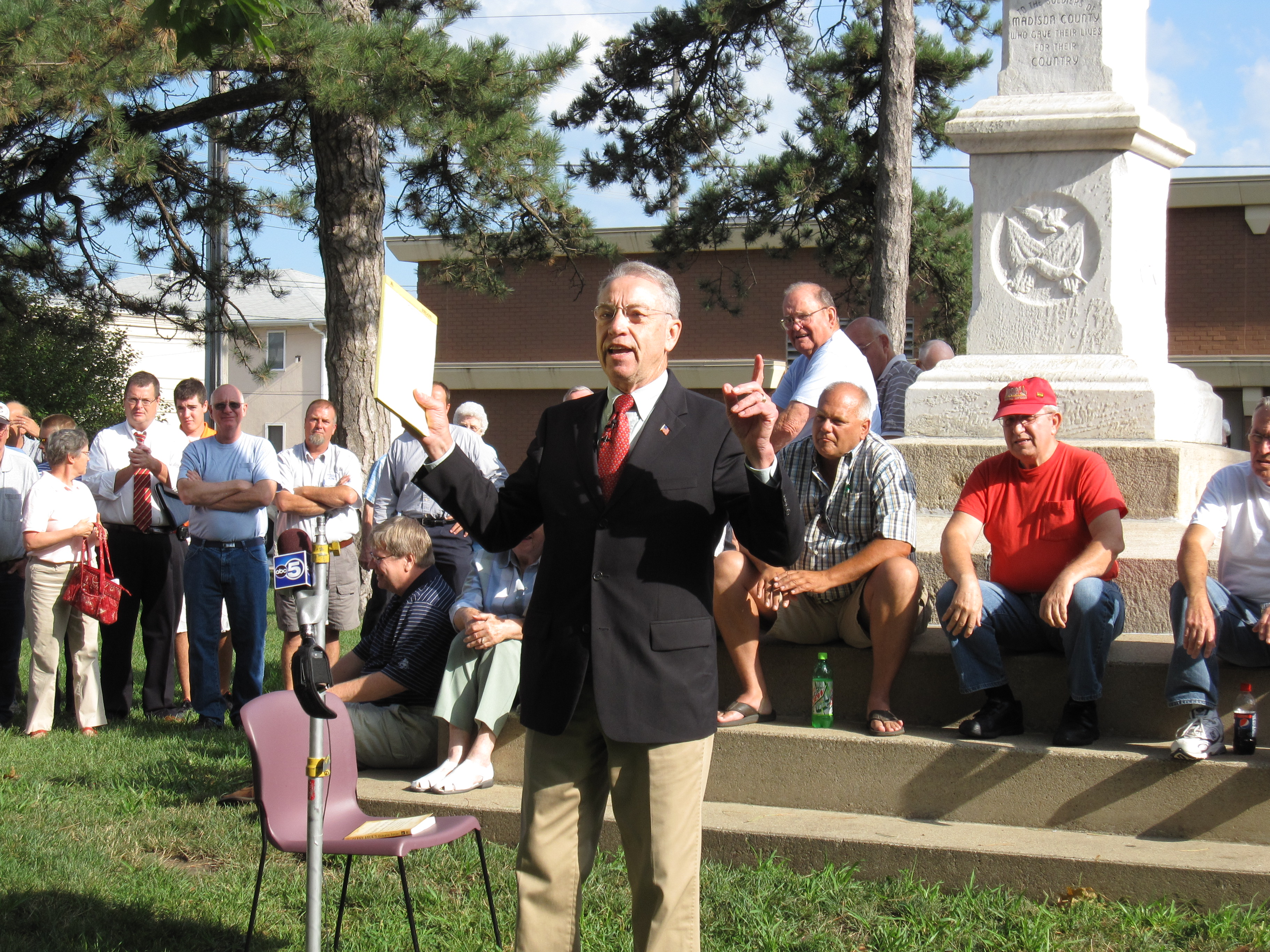 Grassley town hall 041